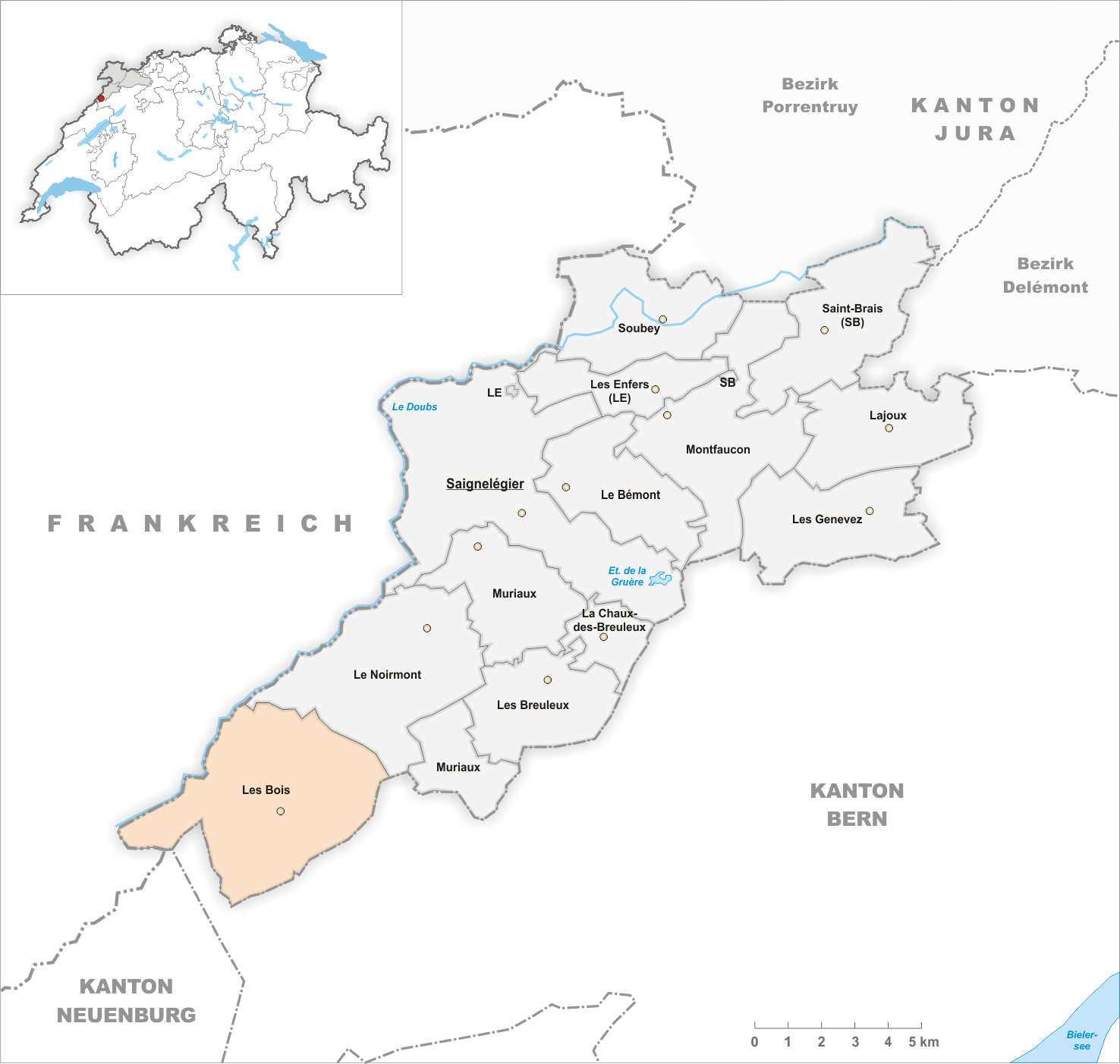 Municipality Les Bois